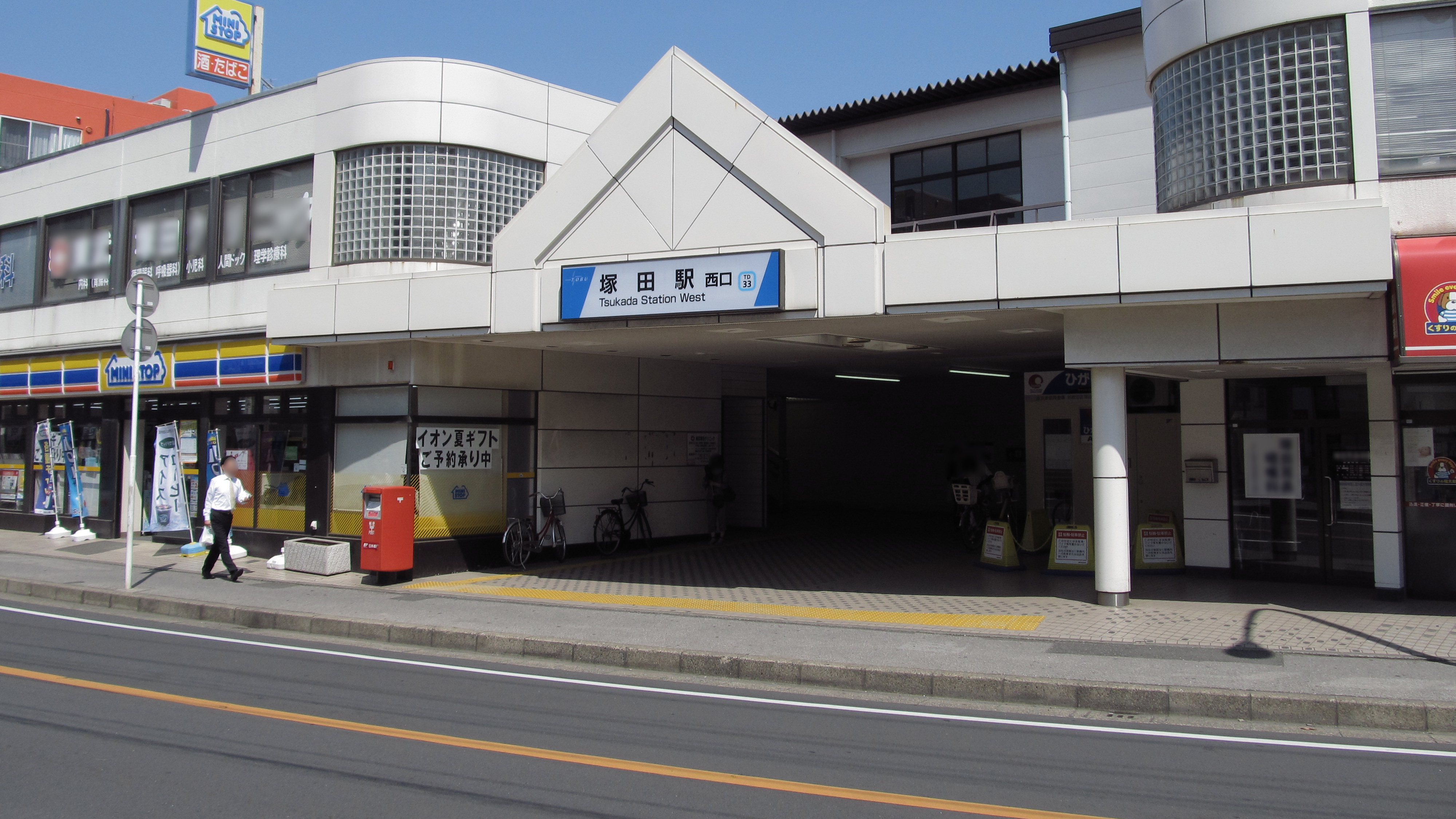 The west entrance to Tsukada Station on the Tōbu Urban Park Line (Noda Line) in Funabashi, Chiba Prefecture, Japan